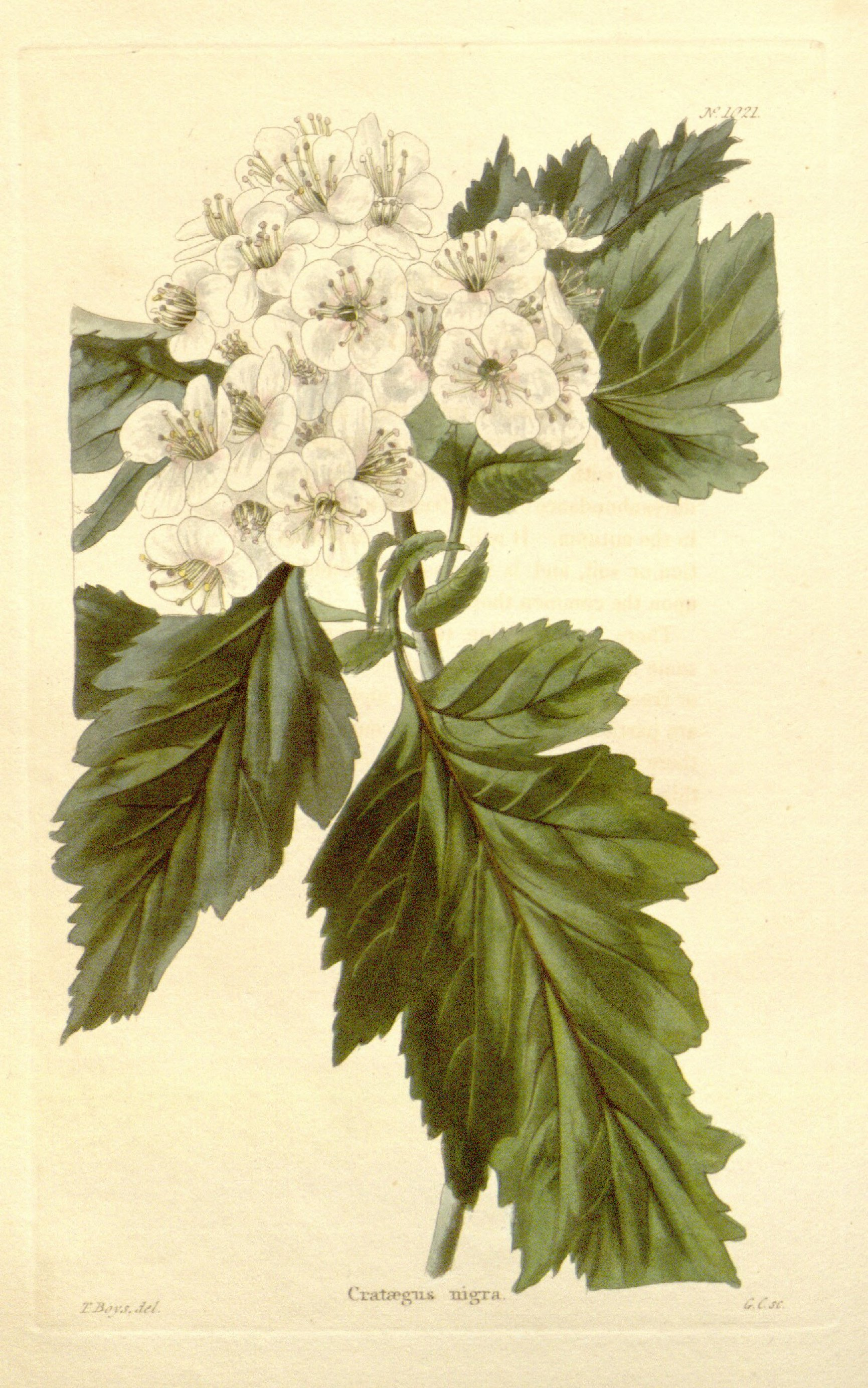 Drawing of Crataegus nigra from The Botanical Cabinet